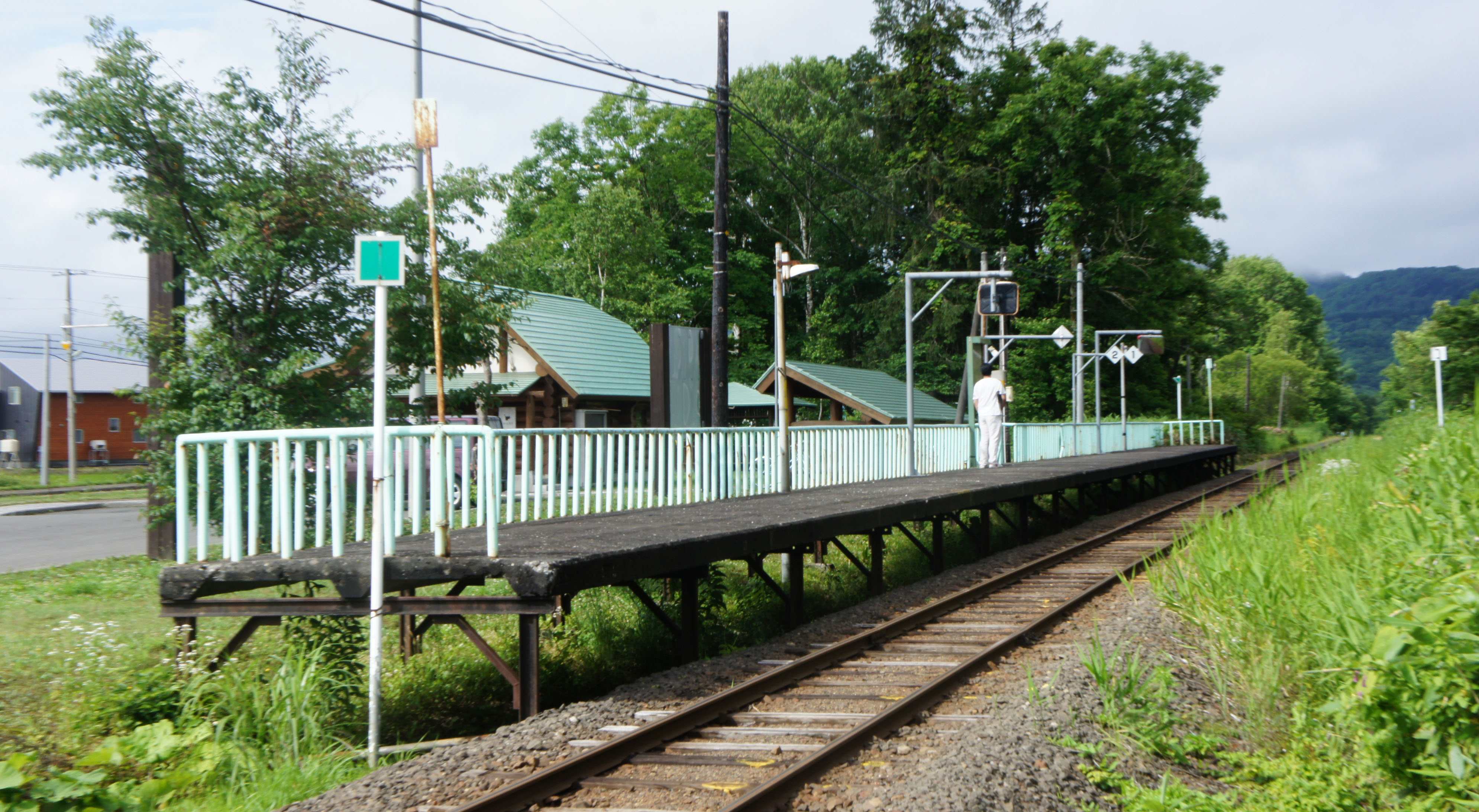 Platform of JR Sassho-Line Tsukigaoka Station